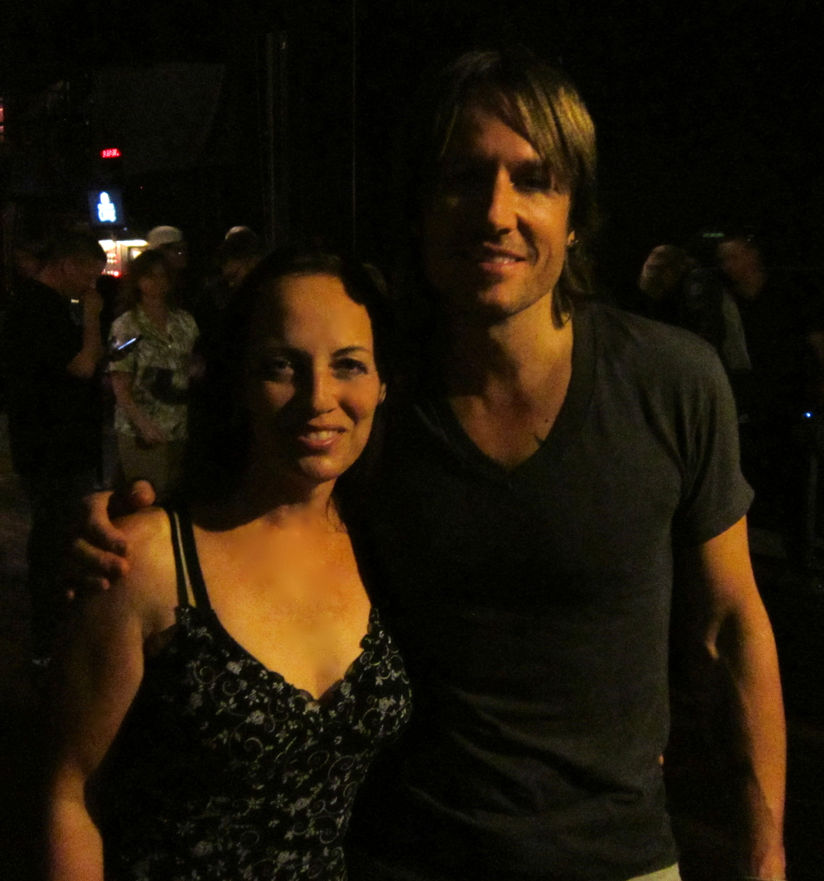 Sylkie Monoff with Keith Urban at Grand Ole Opry - 2012